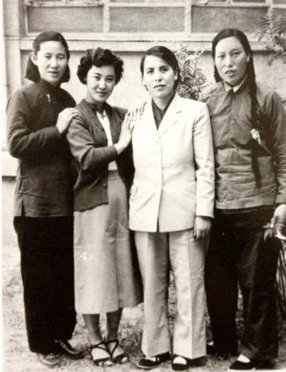 Four women members of the 1st National People's Congress from Shanxi in 1954. From left to right: Hu Wenxiu, Guo Lanying, Li Hui and Shen Jilan. 中文（中国大陆）: 1954年出席第一届全国人民代表大会的四位山西女代表，从左到右分别为胡文秀、郭兰英、李辉和申纪兰。